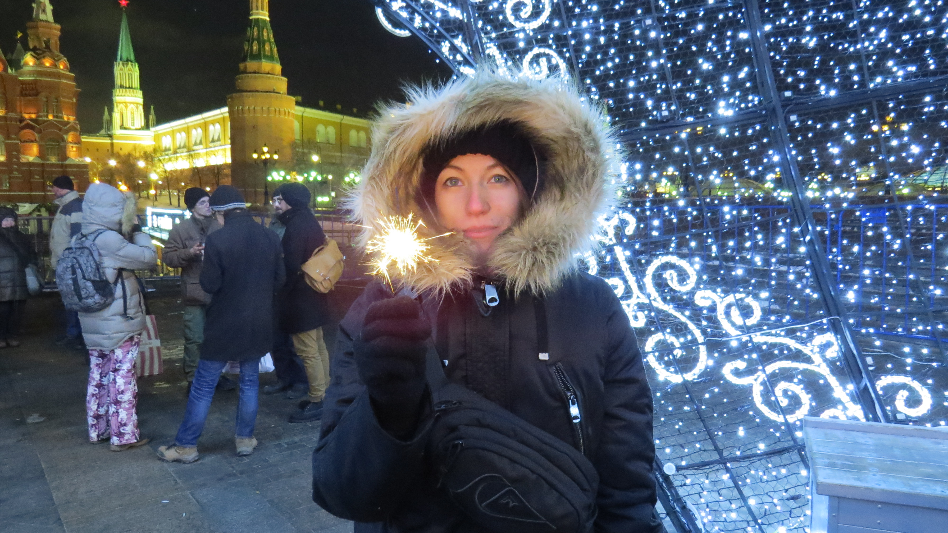 Protest against Navalnys' conviction on 30.12.2014 in Moscow. Christmas sphere on Manezhnaya square.